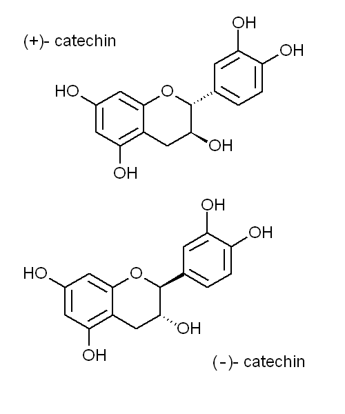 diastereoisomers of catechin